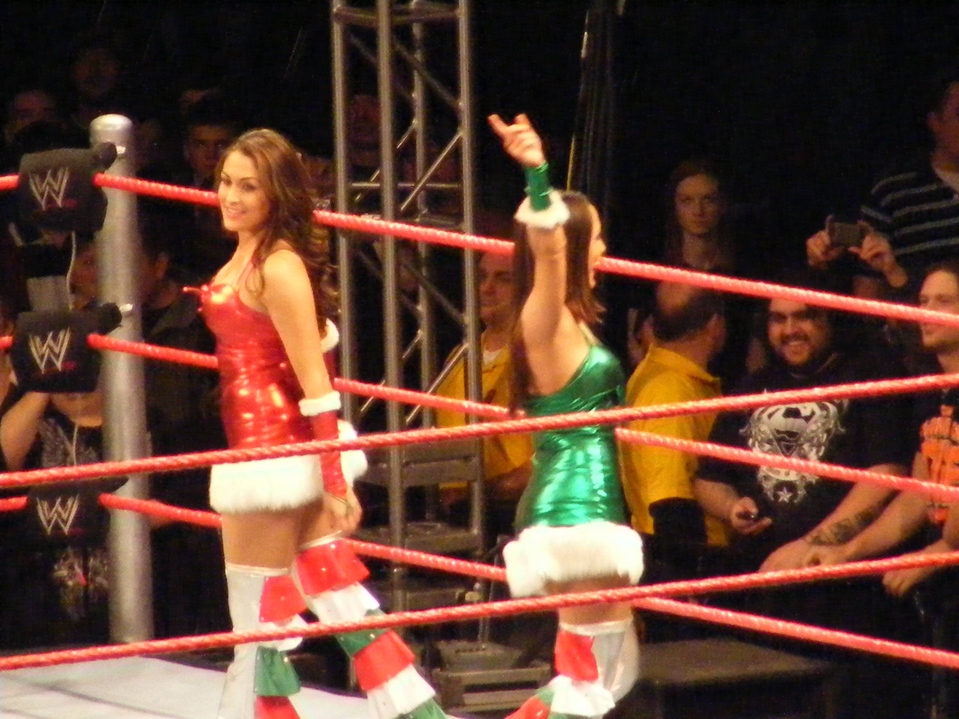 Professional wrestlers The Bella Twins in a Santa's Little Helper match at a WWE shoe in Syracuse on December 30, 2009.